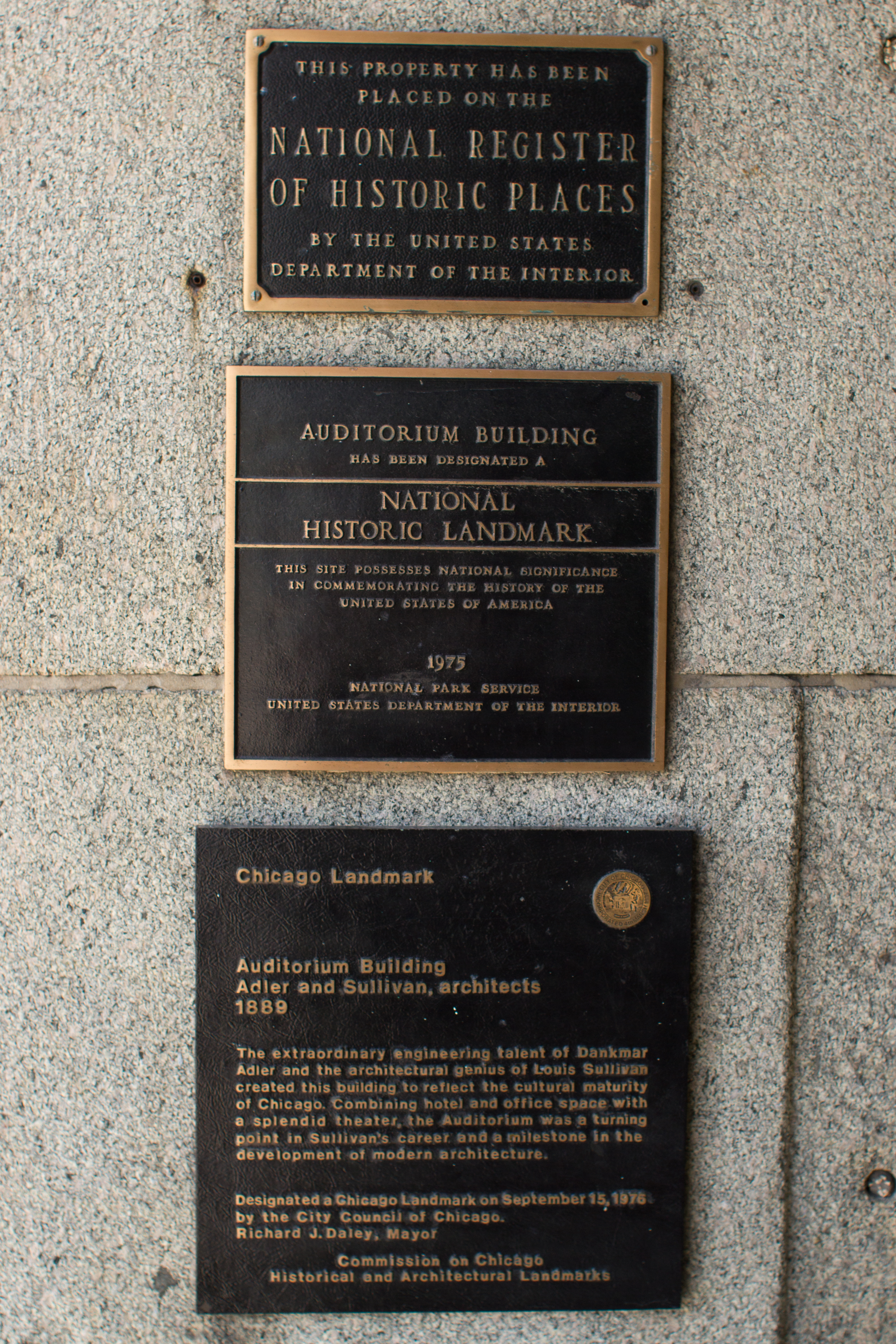 Auditorium Building, Roosevelt University